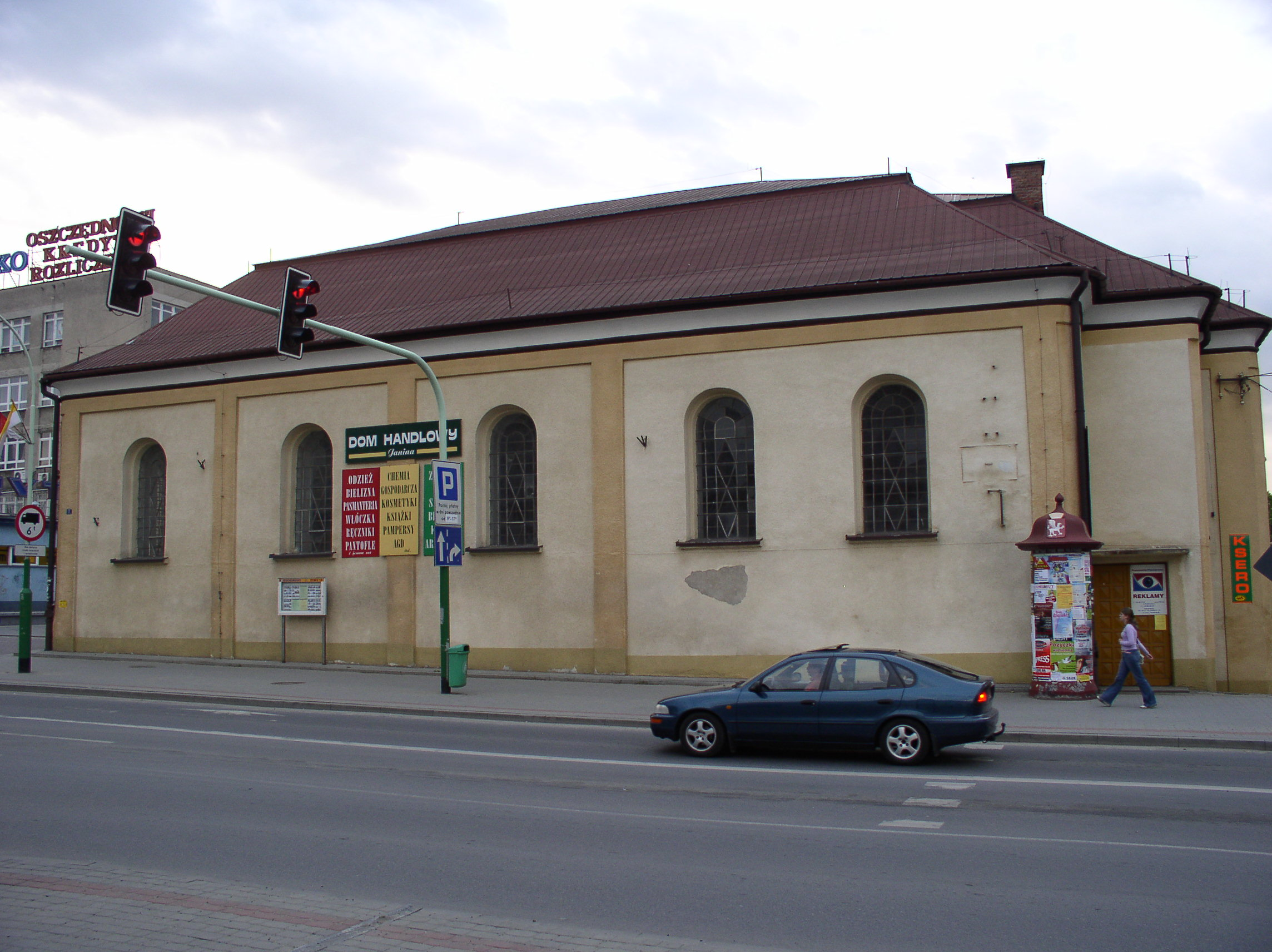 New Town Synagogue in Dębica